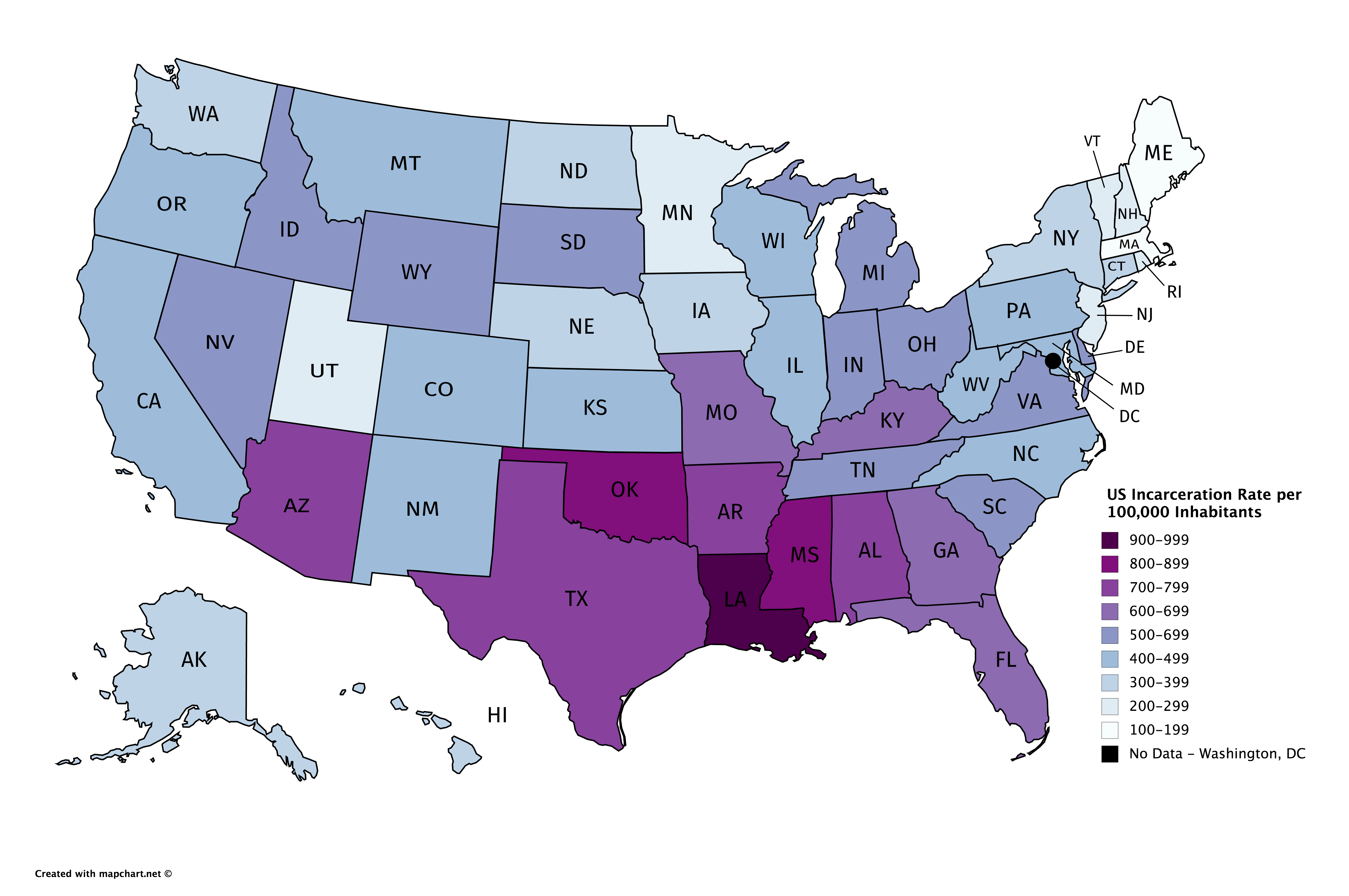 Imprisonment rate of sentenced prisoners under jurisdiction of state correctional authorities per 100,000 U.S. residents, age 18 or older. Does not include prisoners who have not been convicted or sentenced. Does not include jail inmates whether convicted or not. Does not include federal prisoners.